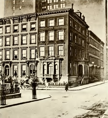 230 Madison Ave. New York, home of Anson and Helen Stokes and place where Anson died